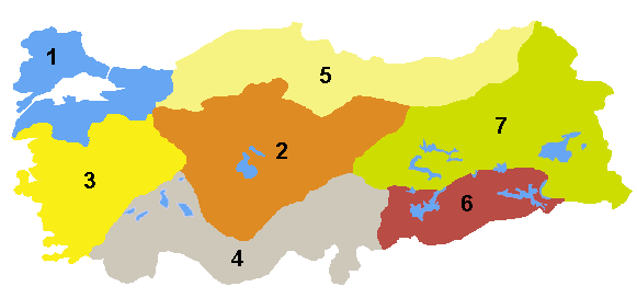 The geographically areas of turkey Marmara central Anatolia Turkey Aegean Mediterranean black sea southeast Anatolia Turkey eastern Anatolia